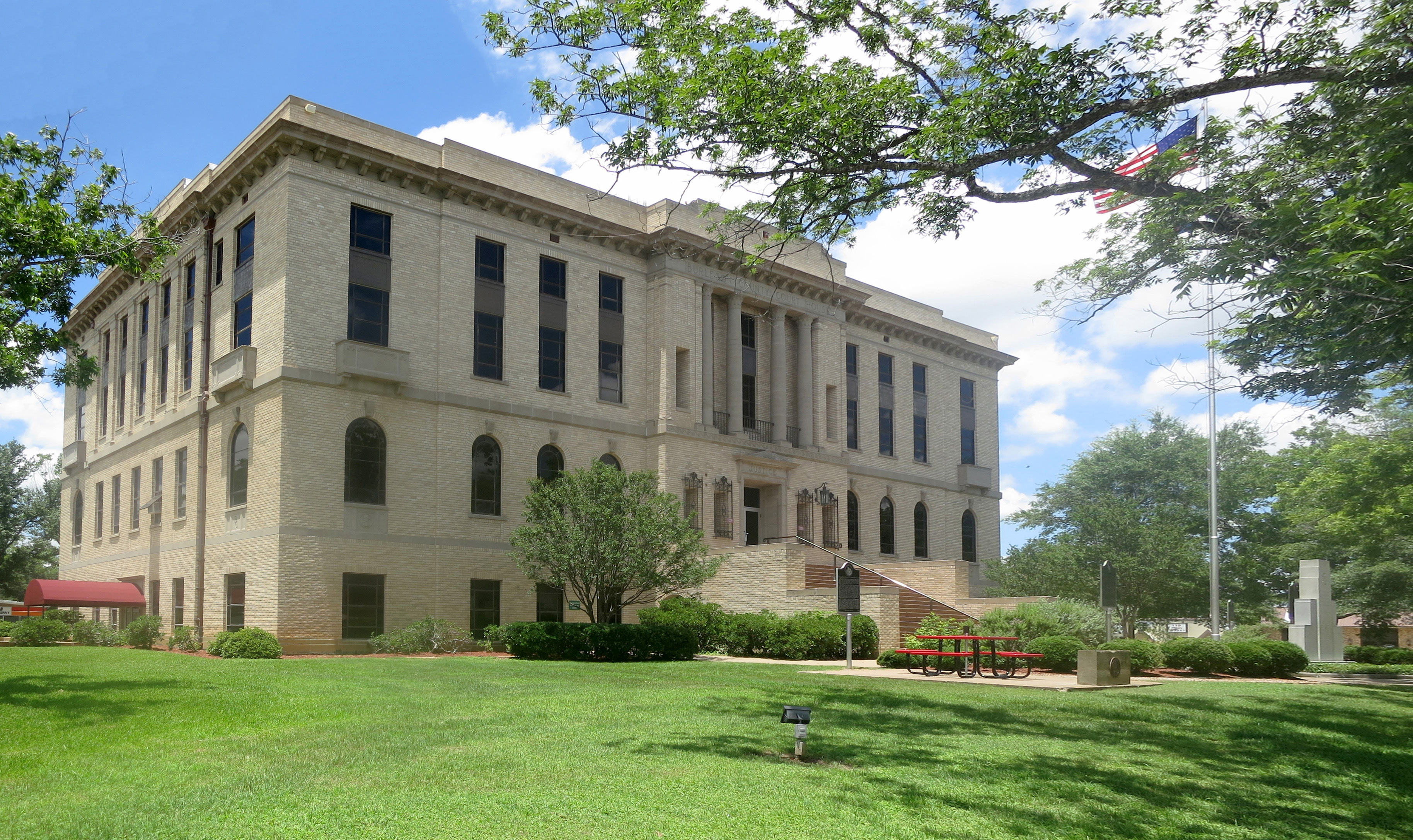 The Burleson County Texas Courthouse